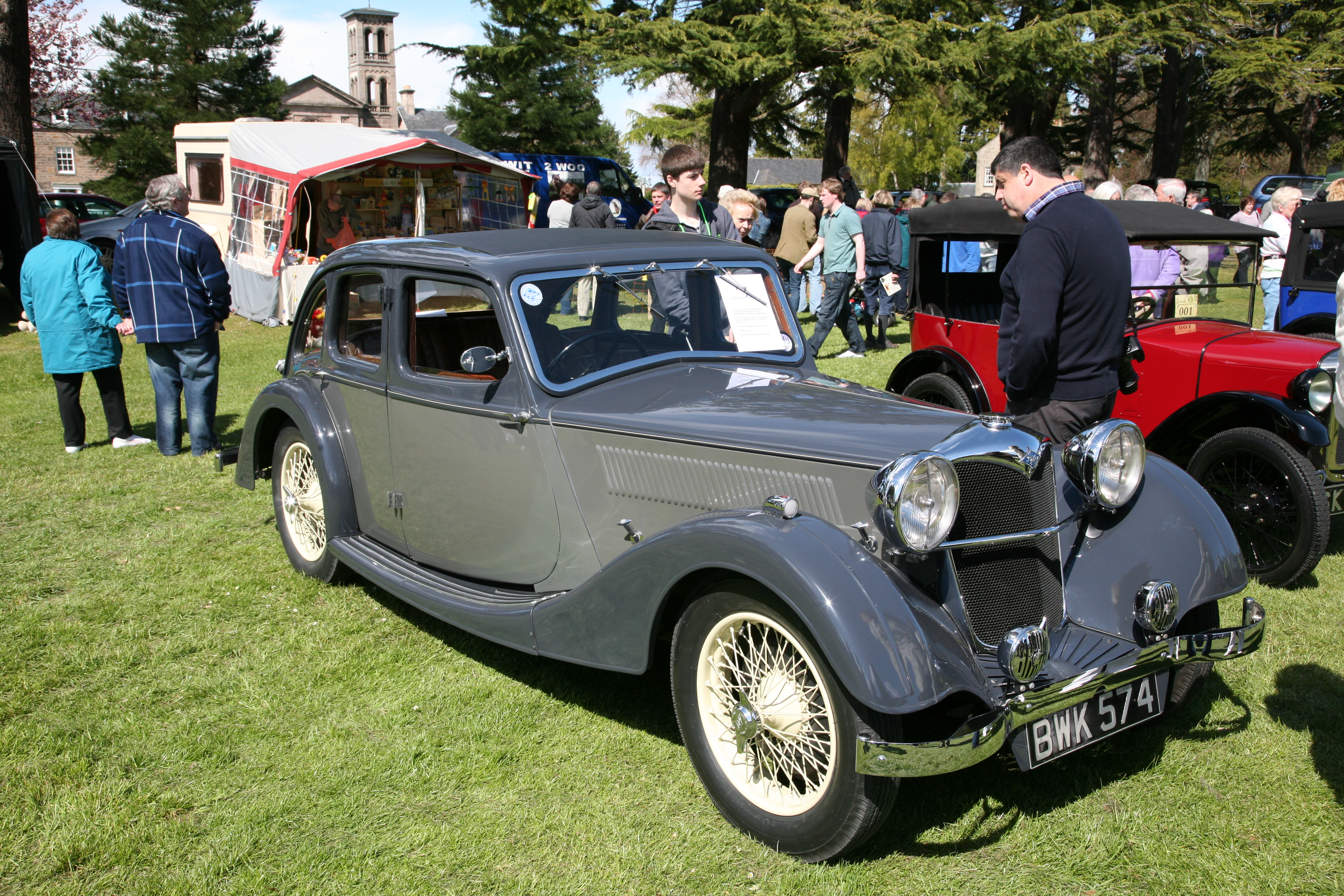 Riley 1½-litre Kestrel-Sprite 6-light saloon 1936 (DVLA) no record under that registration